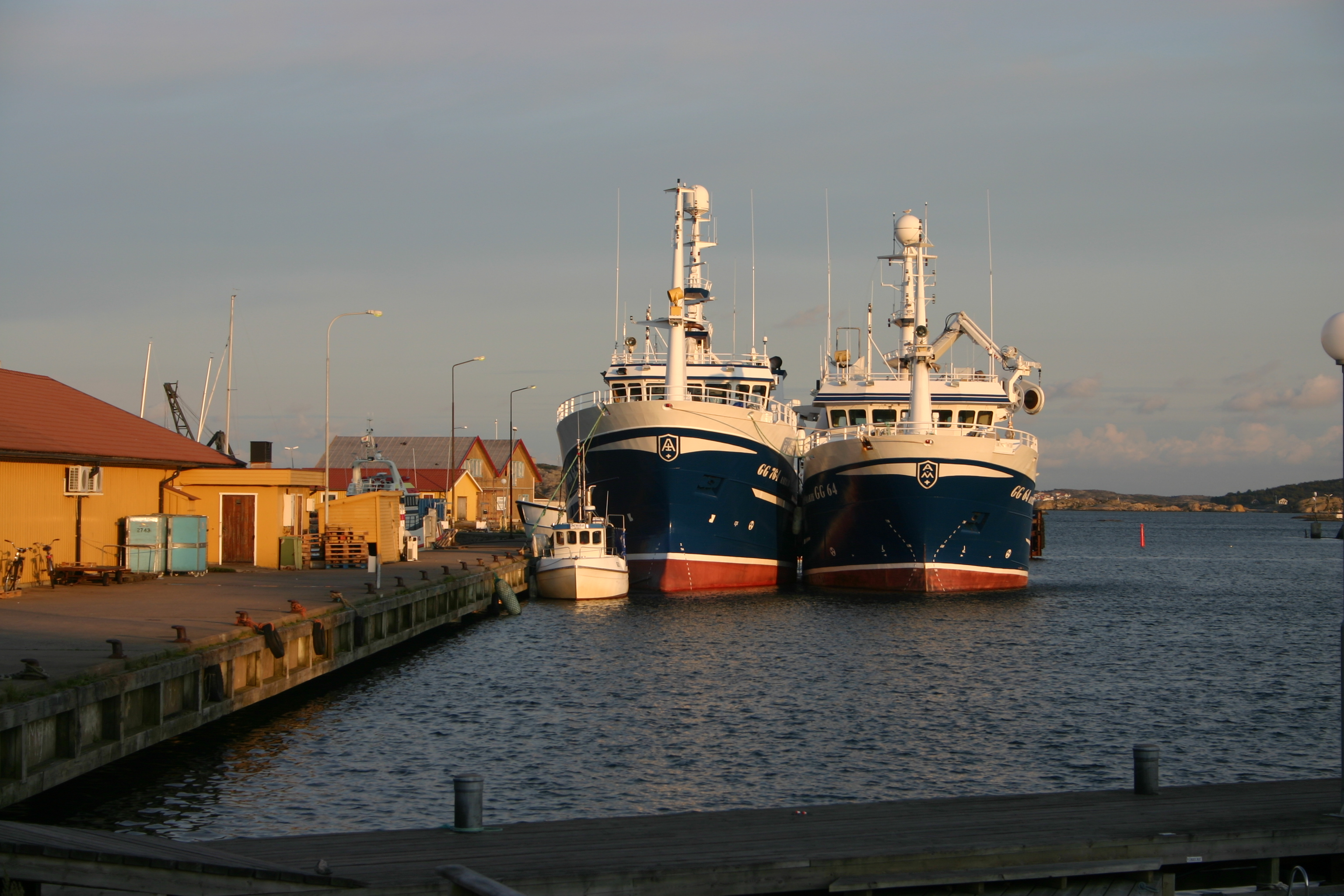 Habour of Rörö, Sweden, fishing boats